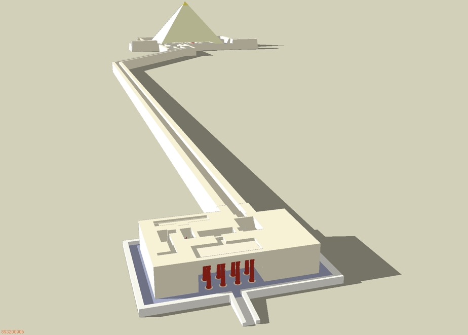 Other view of Nyuserre's pyramid from the valley temple at Abusir - 5th dynasty of Egypt